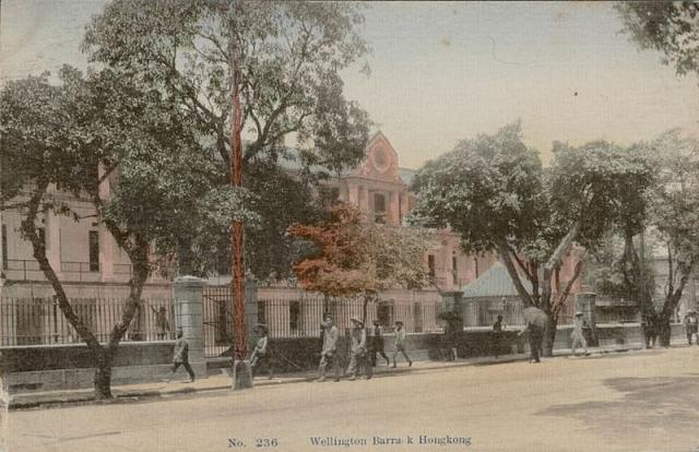 A drawing of the entrance of Rodney Block inside the Wellington Barracks. A bell, which would ring at lunchtime and evening, was hanging in the front door. It explains why the district was currently named "Kum Chong" in Cantonese, which means "Golden Bell". After the Second World War, the Wellington Barracks were renamed as H.M.S. Tamar.